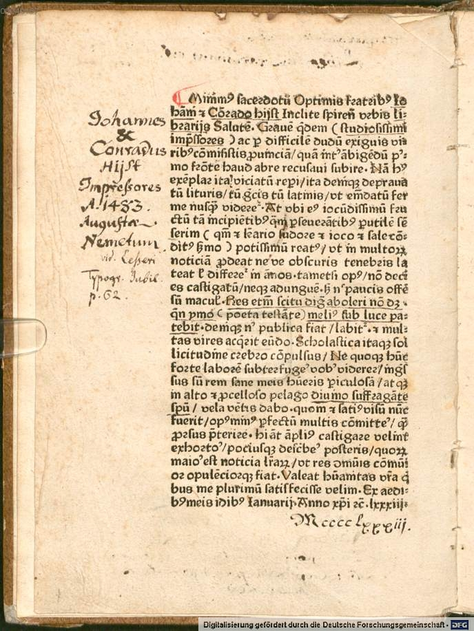 The first page of Richard de Bury's Philobiblon, printed in Speyer (lat:Augusta Nemetum) in 1483 by Johann and Conrad Hist